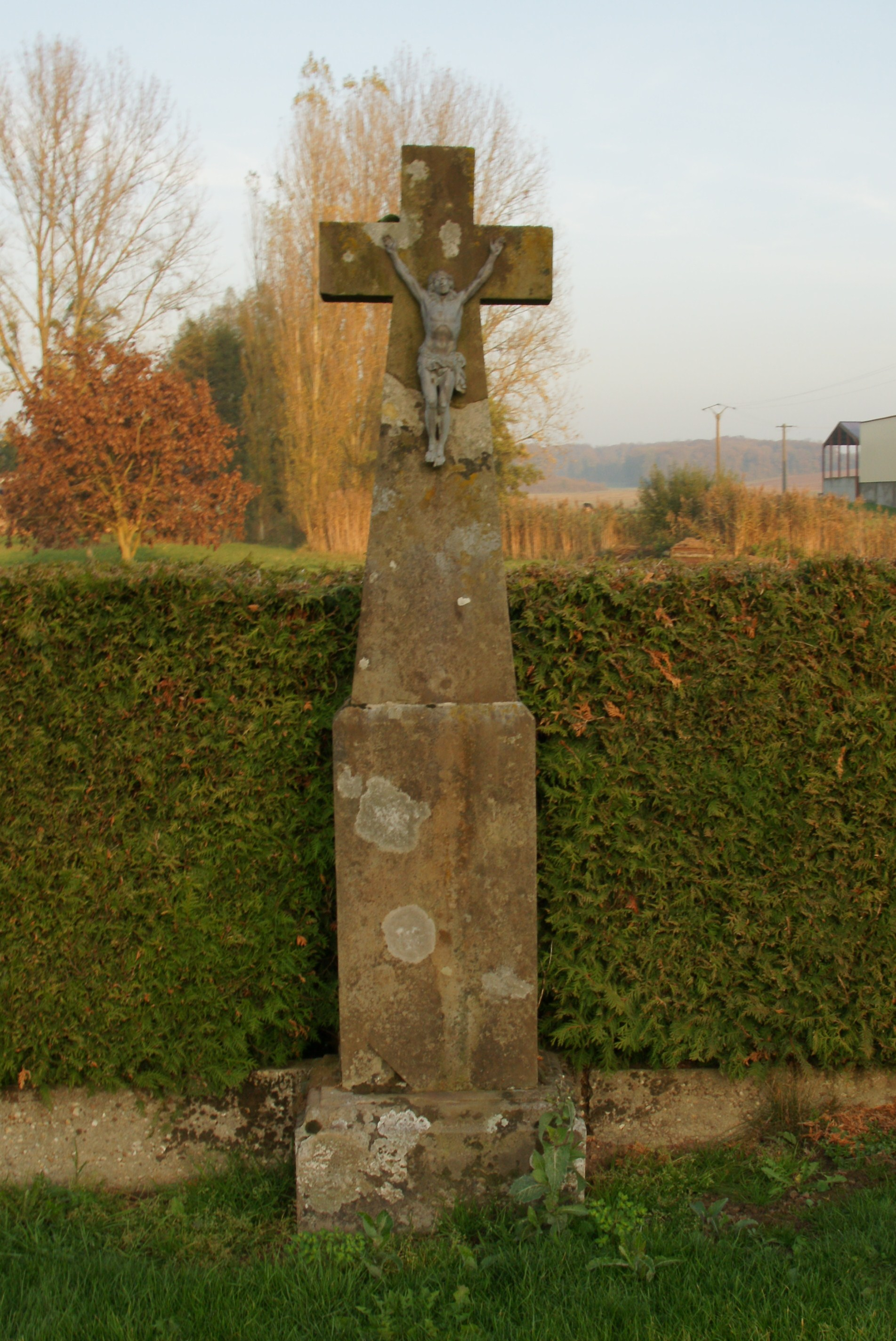 Torcheville. Calvary in the village center near the Rose.